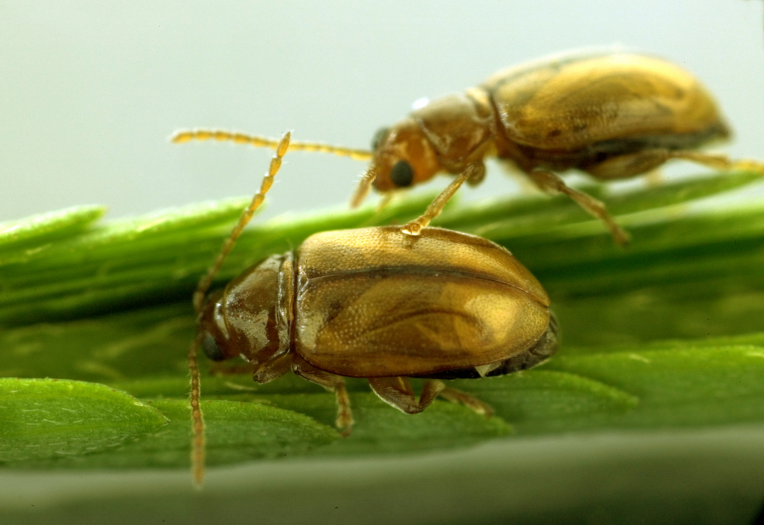 The mimosa flea beetle, Nesaecrepida infuscata is the latest biological control agent to be introduced in the fight to control the environmental weed Mimosa pigra. Mimosa was introduced into Australia in the late 1800s as a curiosity, and is now a serious weed of northern Australian wetlands and floodplains. Since 1983, 12 insects and two fungi have been released to help control mimosa, and a recent study showed that the four most effective insects have reduced seed rain and soil seed banks by 90 per cent. The mimosa flea beetle was specifically chosen to fight mimosa in the tropical wetlands because its larvae feed on mimosa roots and the soft tissues of seedlings, often killing them. Adults feed on the leaves. These parts of the plant are relatively untouched by current agents so this beetle should put mimosa under even more pressure.